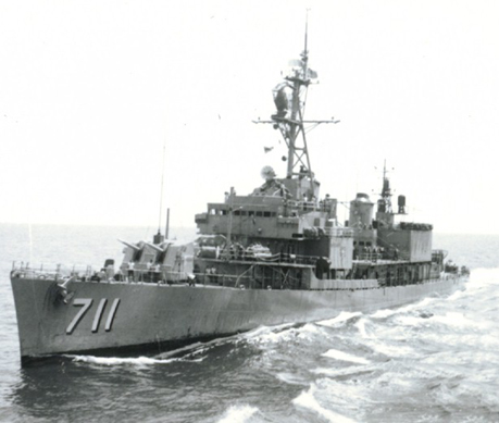 The U.S. Navy destroyer USS Eugene A. Greene (DD-711) approaching the fleet oiler USS Ponchatoula (AO-148), not visible, during replenishment operations in the Gulf of Tonkin, in 1966-1967.